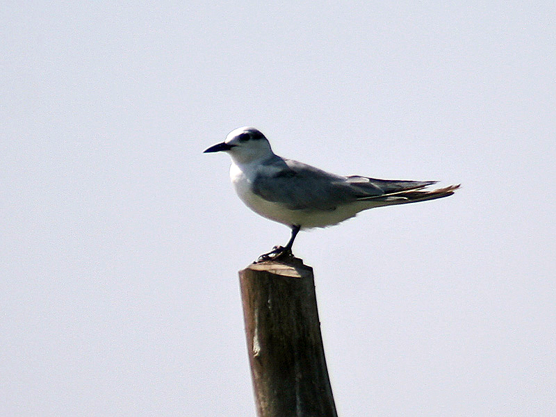 Whiskered Tern Chlidonias hybrida in Chhilka, Orissa, India.